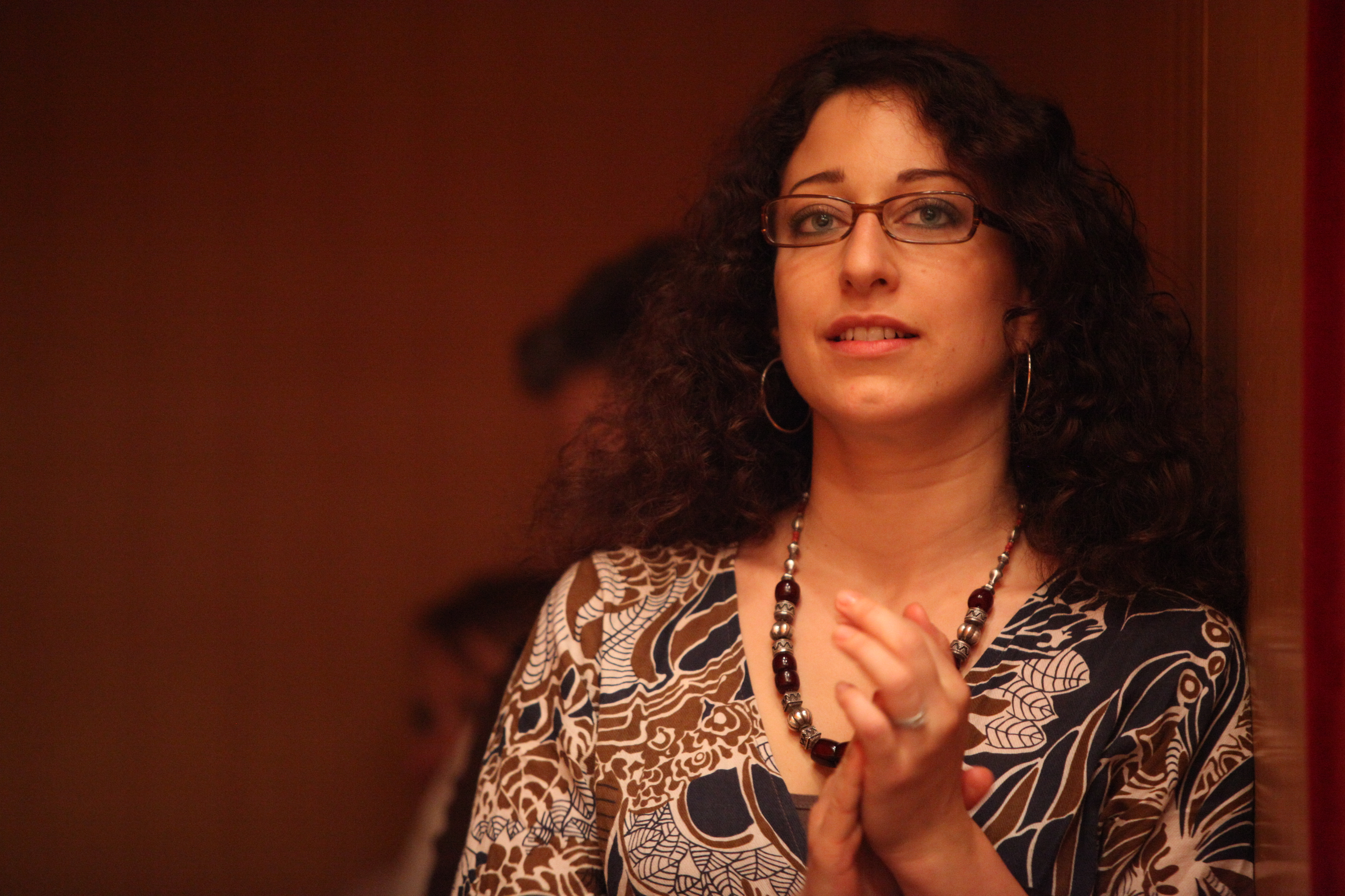 French film director Mona Achache at 2010 Karlovy Vary International Film Festival